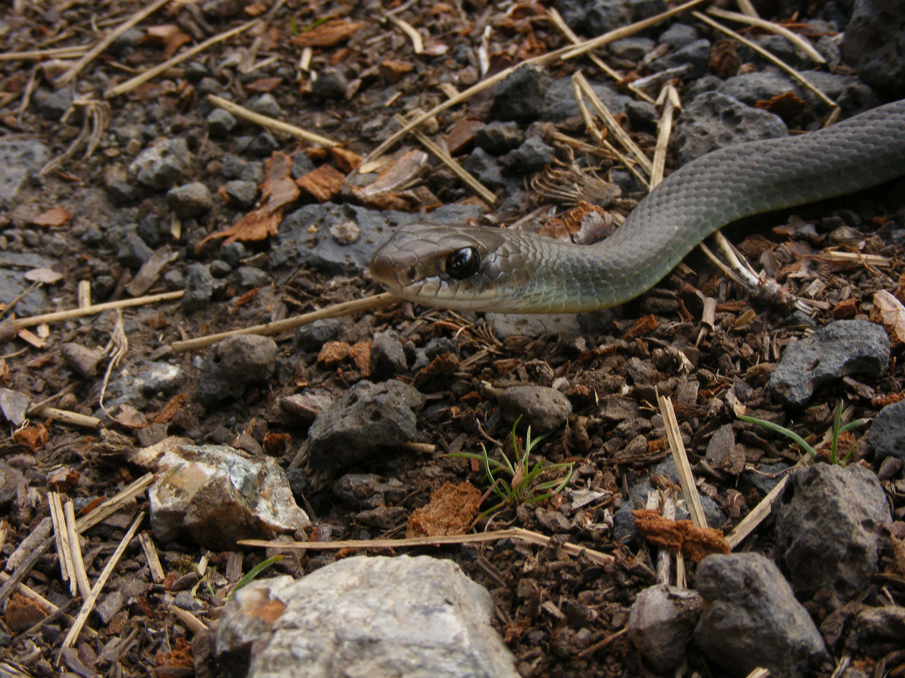 I took this photo on a gravel road in between a pond and some wetlands in a ponderosa pine and aspen forest near the town of Cheney, Washington. The snake here was basking in the road, on a warm sunny day in early June. He was very calm while I took photos of him, even when I got very close to his head. It was only when I touched his tail that he retreated into a nearby thicket, after which I could not locate him.